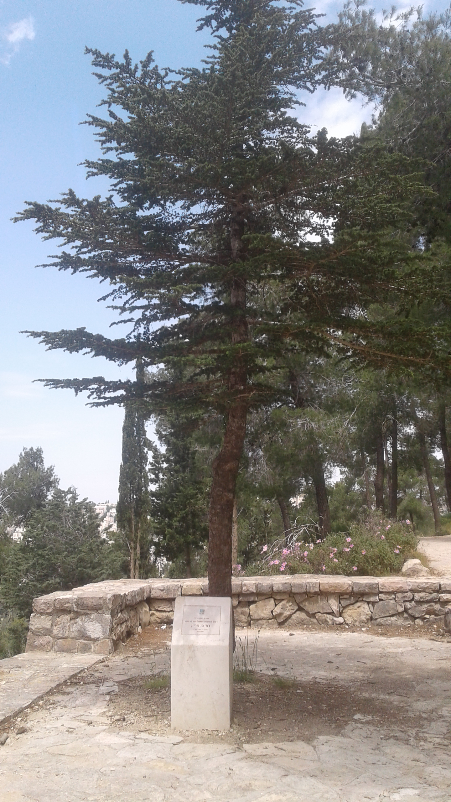 A cedrus planted by David Ben Gurion at Jerusalem forest at 24/2/58